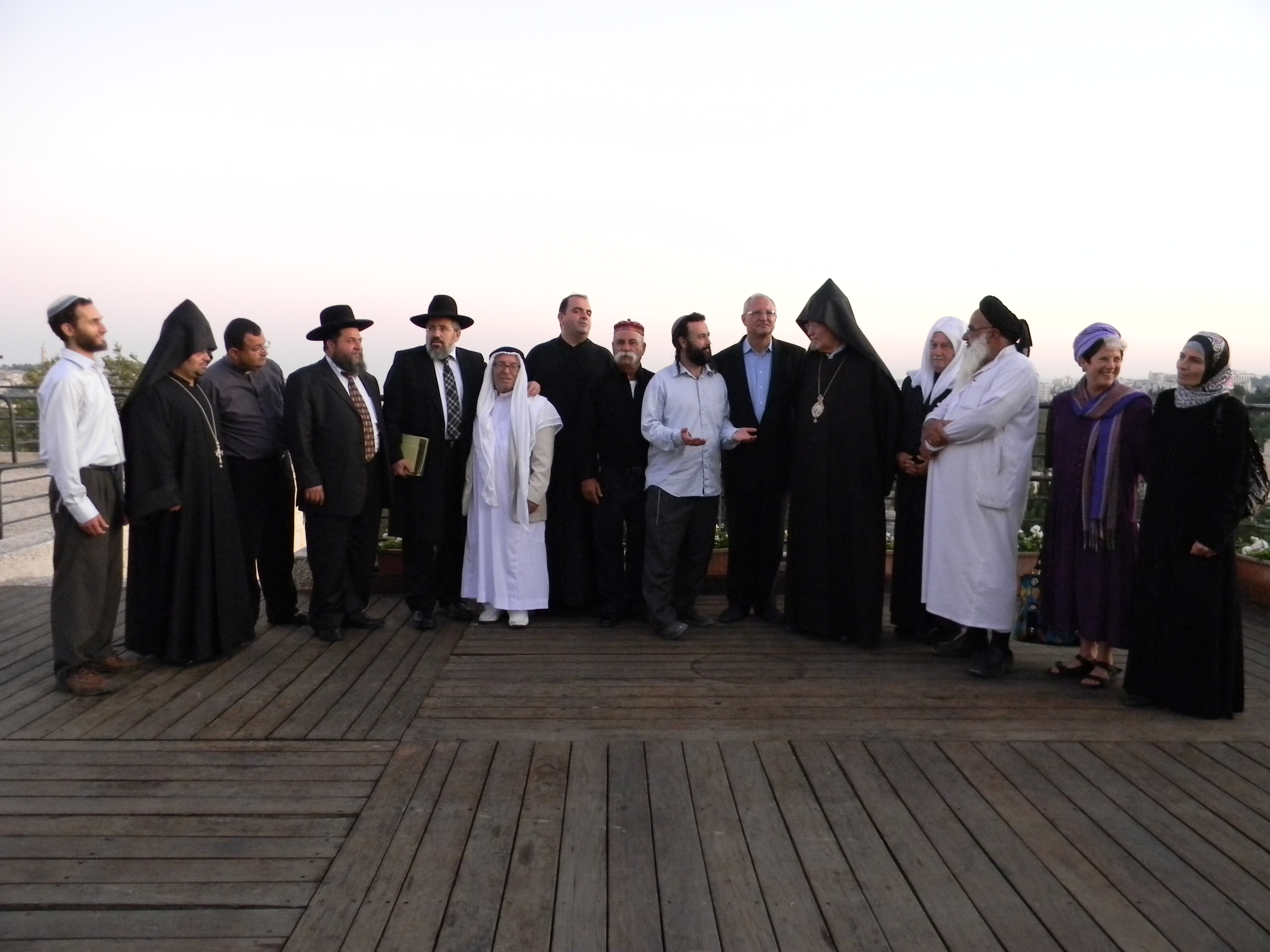 Eliyahu Mclean Interfaith Event